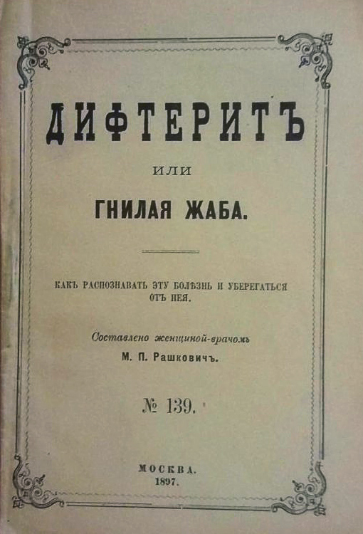 Cover book of Rashkovich M. P.